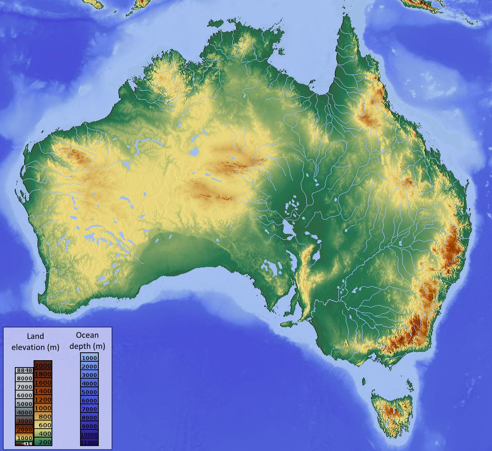 Reliefmap of Australia